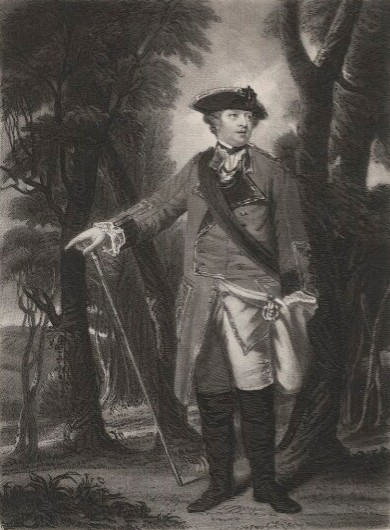 Portrait of Sir John Molesworth, 5th Baronet (1729–1775), British politician.